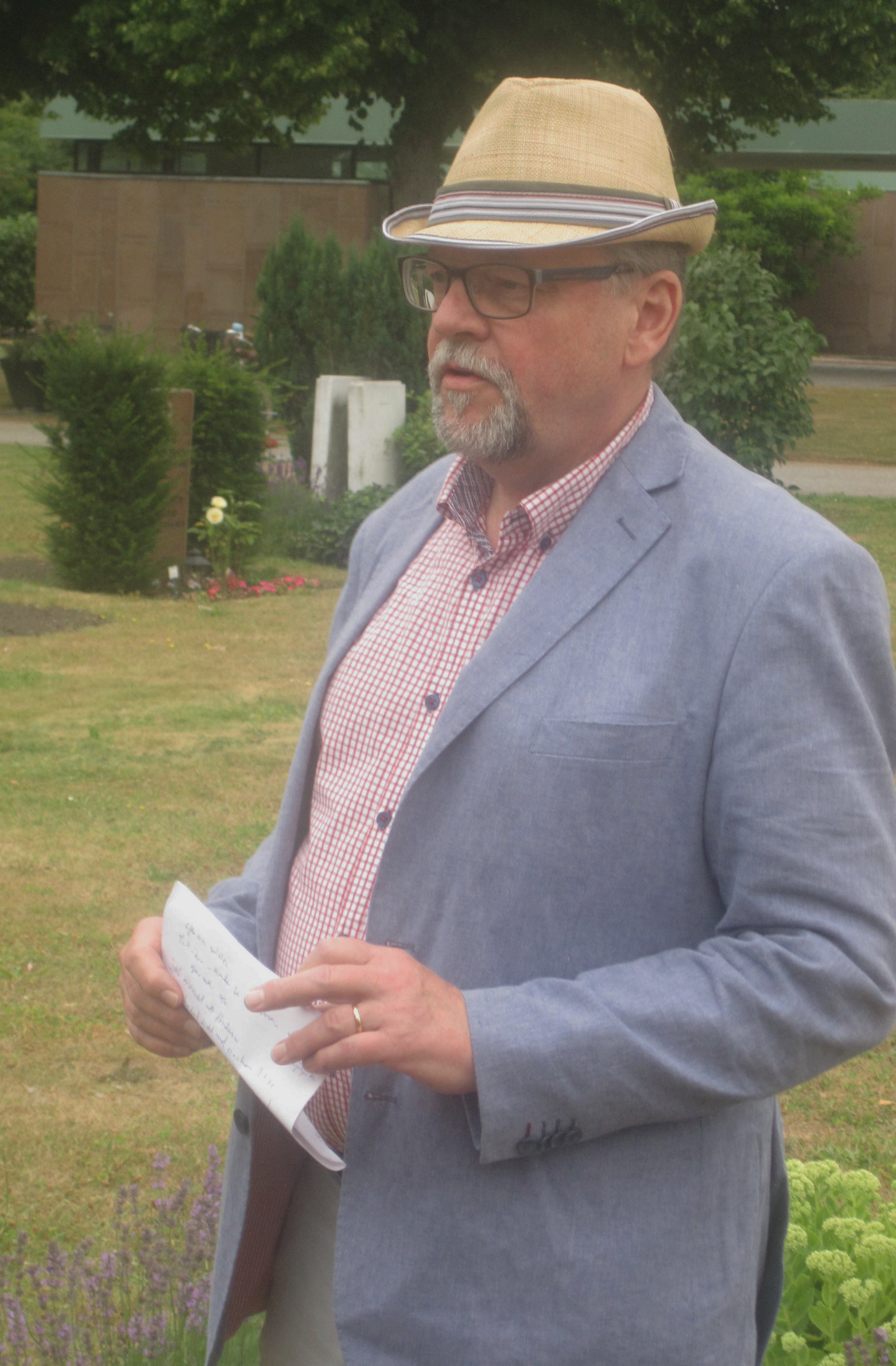 Sweish journalist and author Ingmar Norlén (1953-2014) speaking at a ceremony by the grave of composer and entertainer Johnny bode at Limhamn cemetery in July 2013.